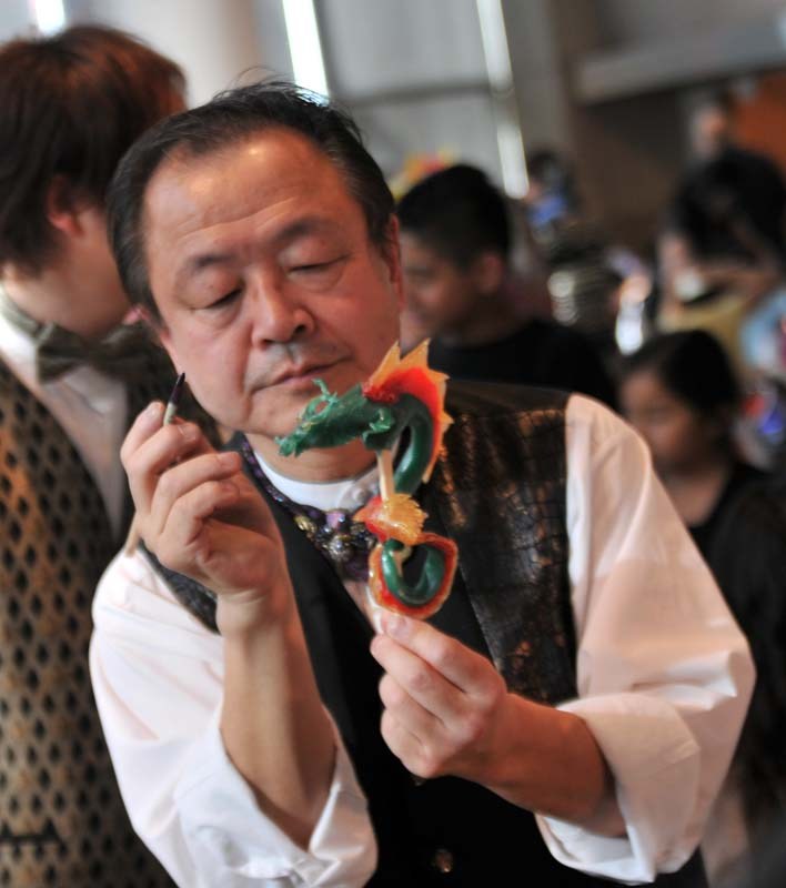 一柳忍と作品（龍）